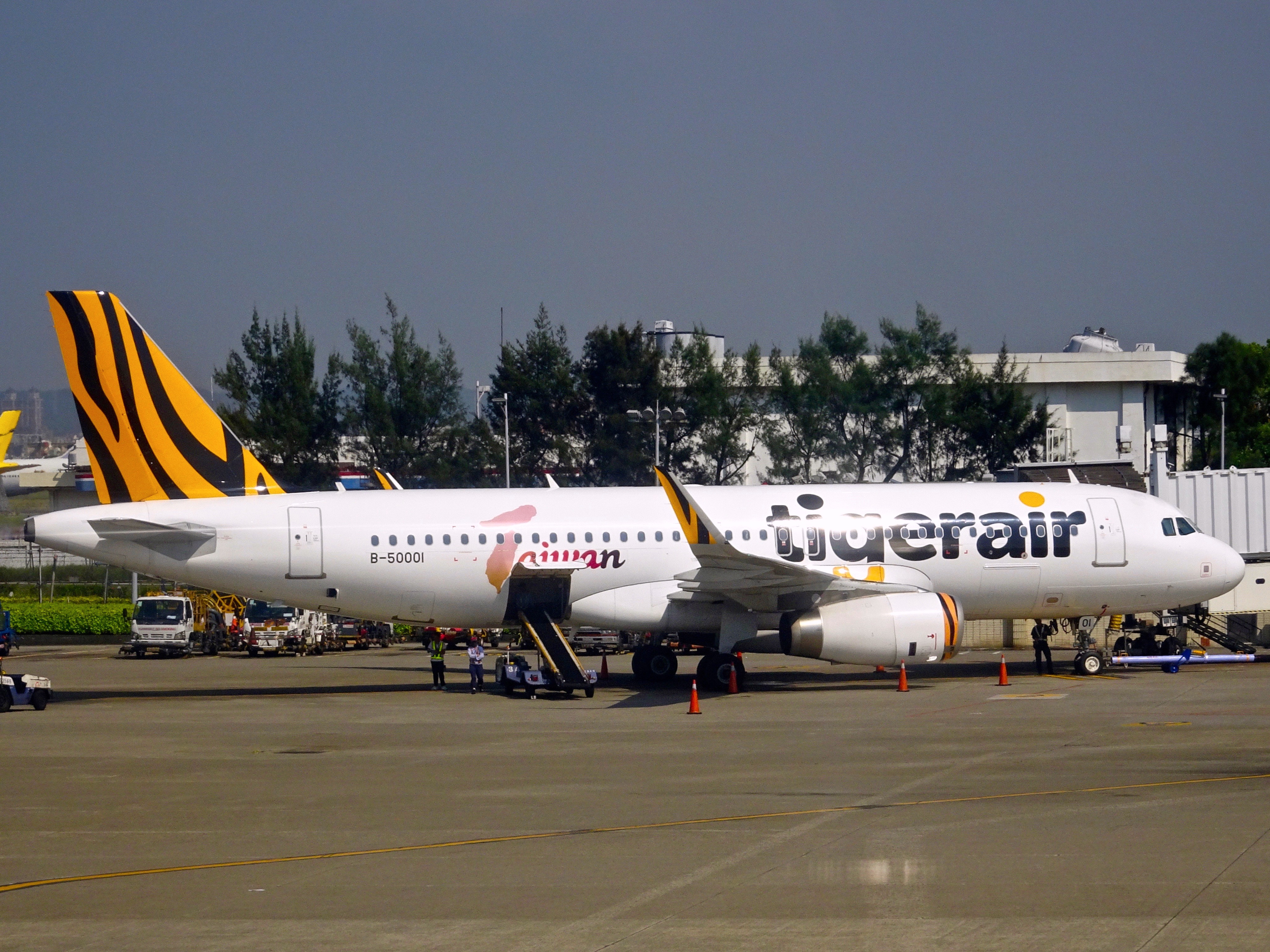 Tigerair Taiwan Airbus A320 at Taiwan Taoyuan International Airport (Taipei).